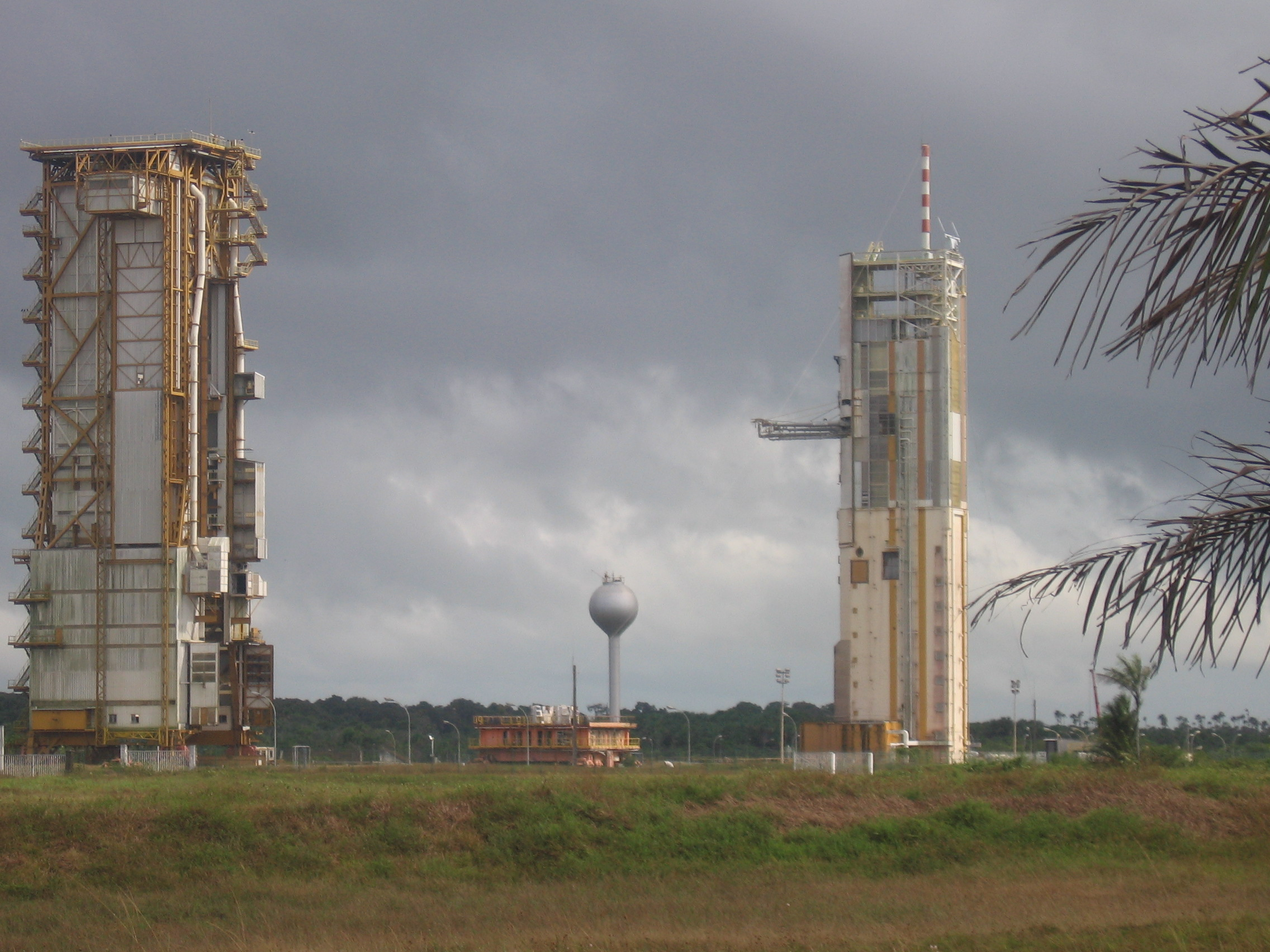 The now (as of 2003) decommissioned Ariane 4 launch pad. To the left is the moving protection building which shielded the rocket from weather during launch operations. To the right is the tower containing the umbilical fuelling and power lines, as well as a lightning conductor. In the centre foreground is the rocket transport vehicle which moved the upright rocket from the assembly buildings to the pad. The round structure behind is the water tower used for cooling and acoustic dampening on launch. The Ariane 5 pad is about half a kilometre to the left of this photo. The new Vega launch pad, under construction as of 2007, is obscured by the umbilical tower. The Soyuz pad is being constructed several kilometres further north from here. The assembly buildings are to the south, behind the camera.